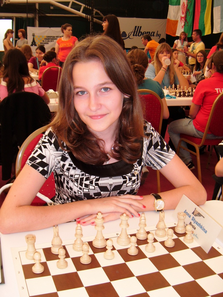 Anna Styazhkina playing in the European Youth Chess Championship in Albena (Bulgaria)